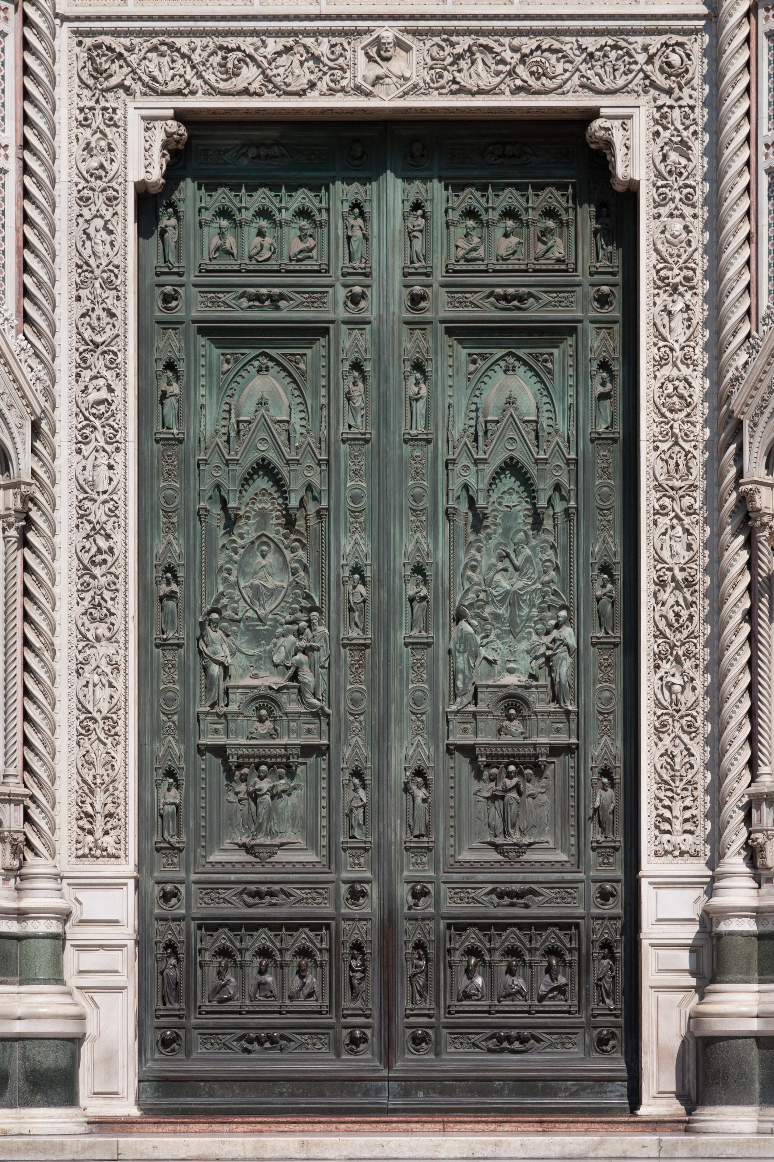 The main gate of the Duomo of Florence.